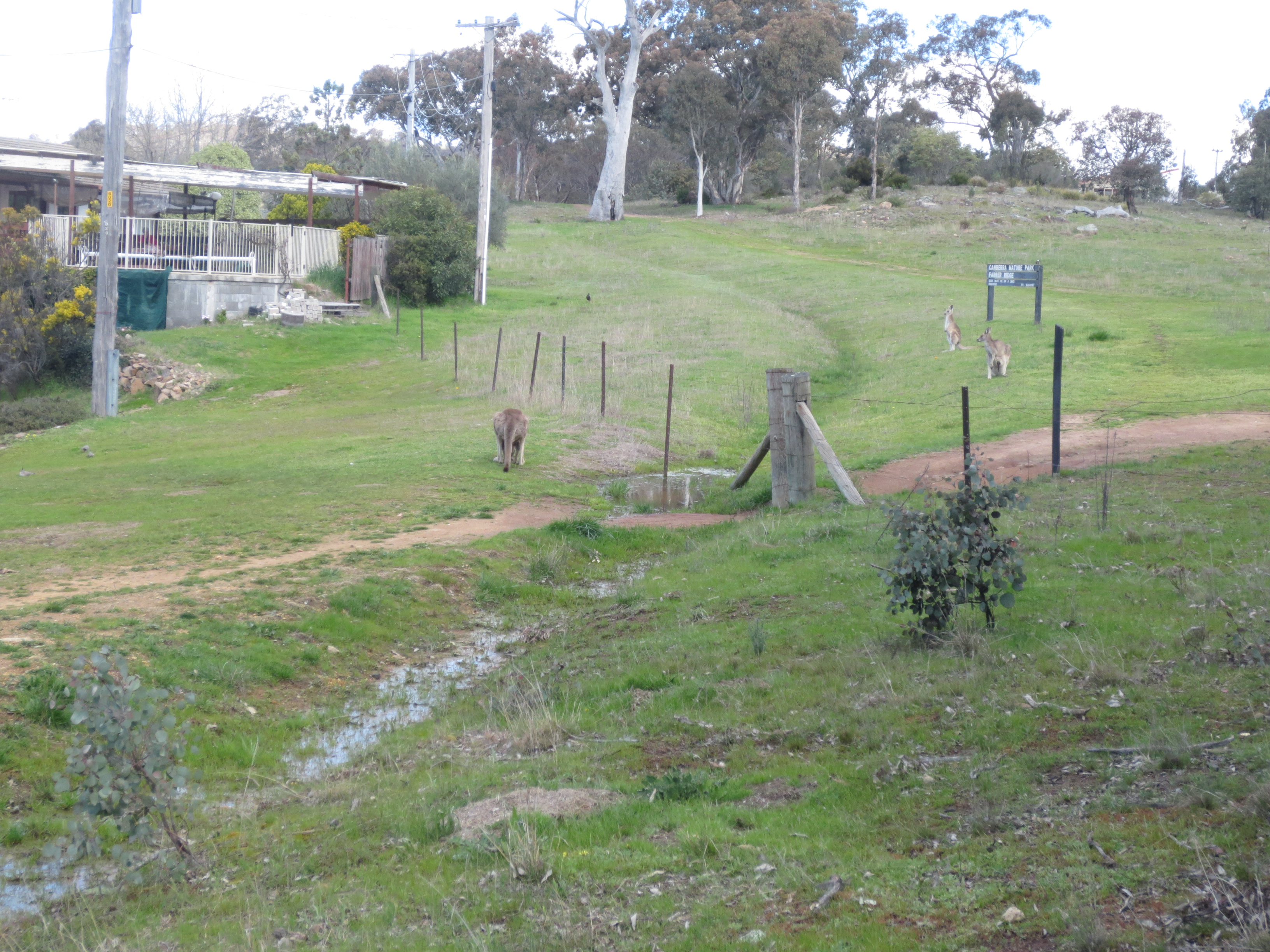 Kangaroos shown adjacent to suburban houses in Farrer, Canberra